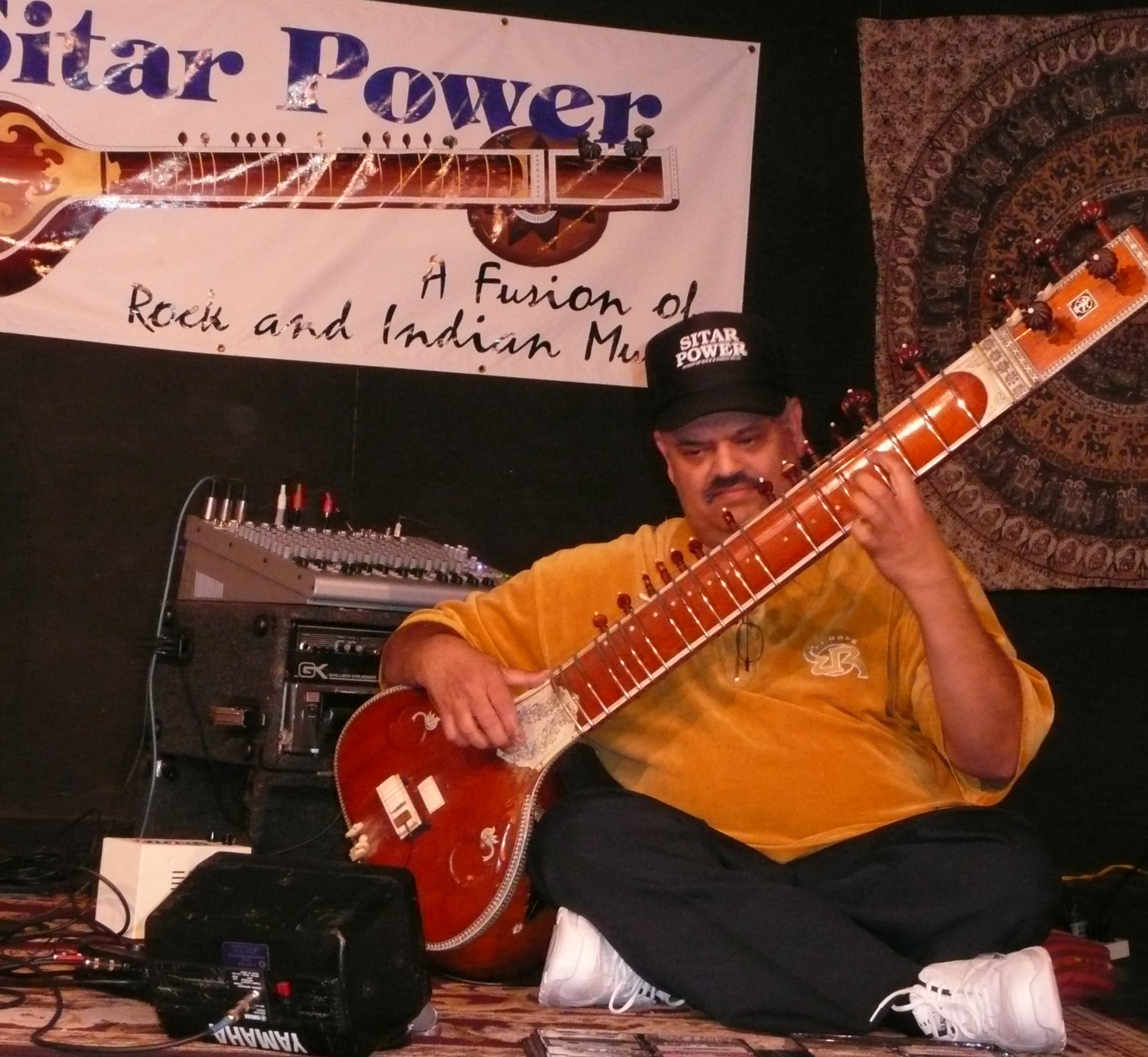 Ashwin Batish This picture is from my personal collection. Enjoy Ashwin Batish|User:Ashwin Batish|Ashwin Batish (talk|User talk:Ashwin Batish|talk) 01:23, 15 September 2010 (UTC)